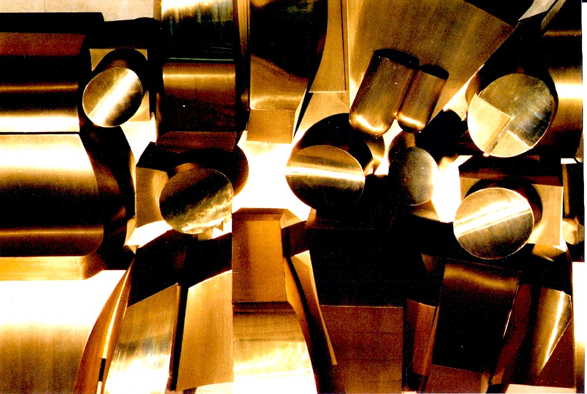 Sculpture by Juan Antonio Palomo